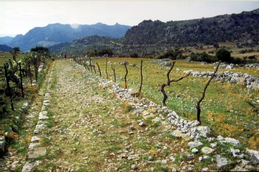 Description: Roman road near Benaocaz, Sierra de Grazalema natural park, Andalusia, Spain Source: own photo Date: year 2000 Author: Jürgen Paeger